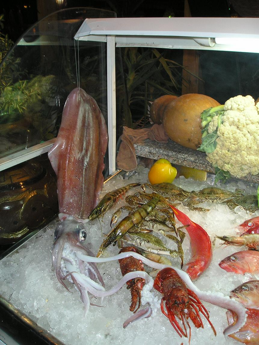 Fresh seafood in Dahab, Sinai, Egypt.